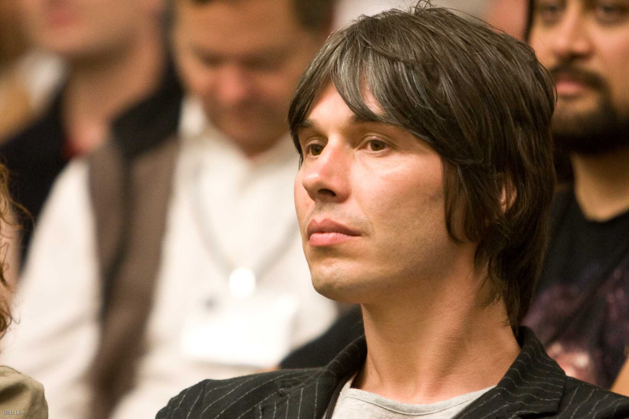 Professor Brian Cox at the Science Foo Camp